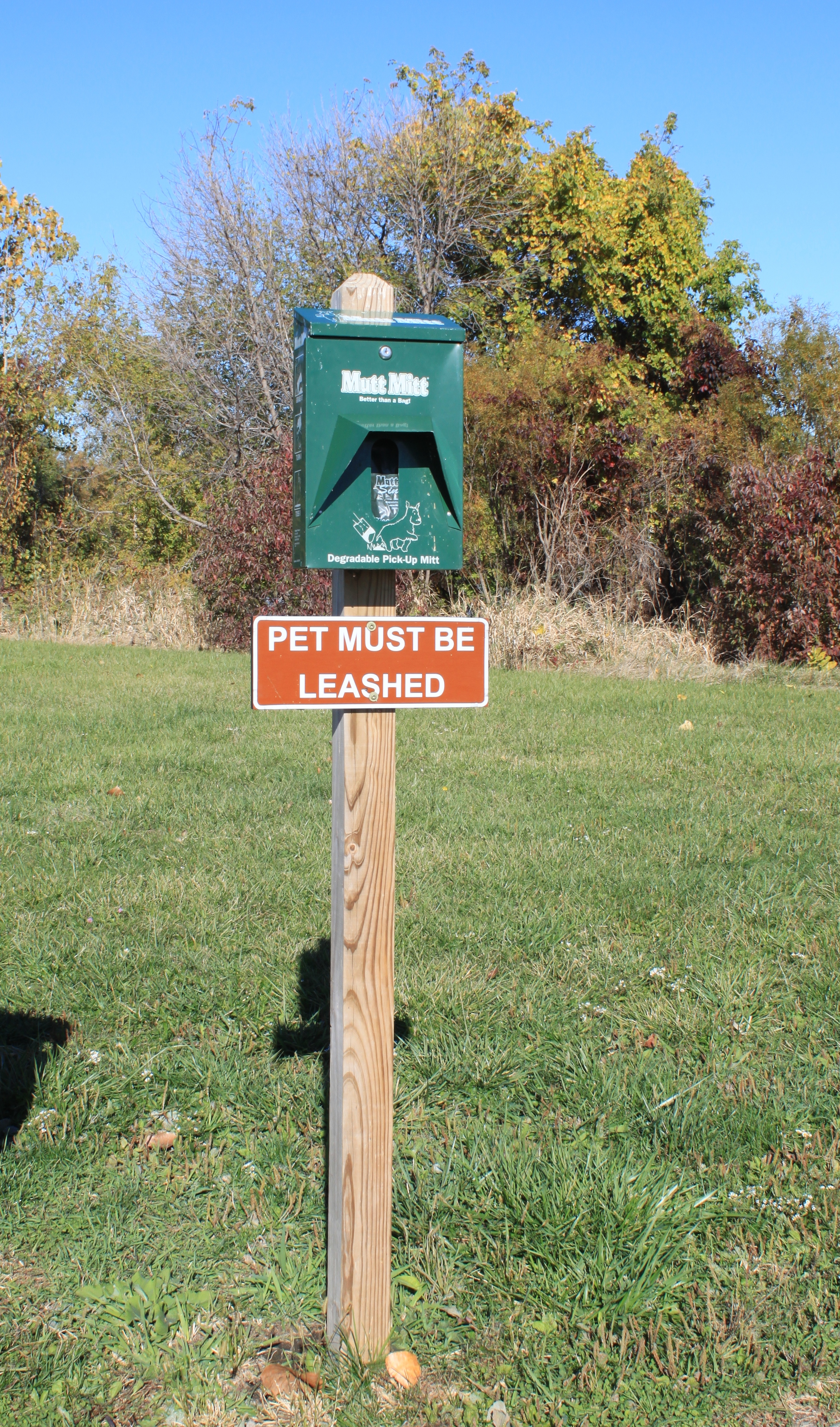 Mutt Mitt dispenser, Sterling State Park, Frenchtown Township, Michigan